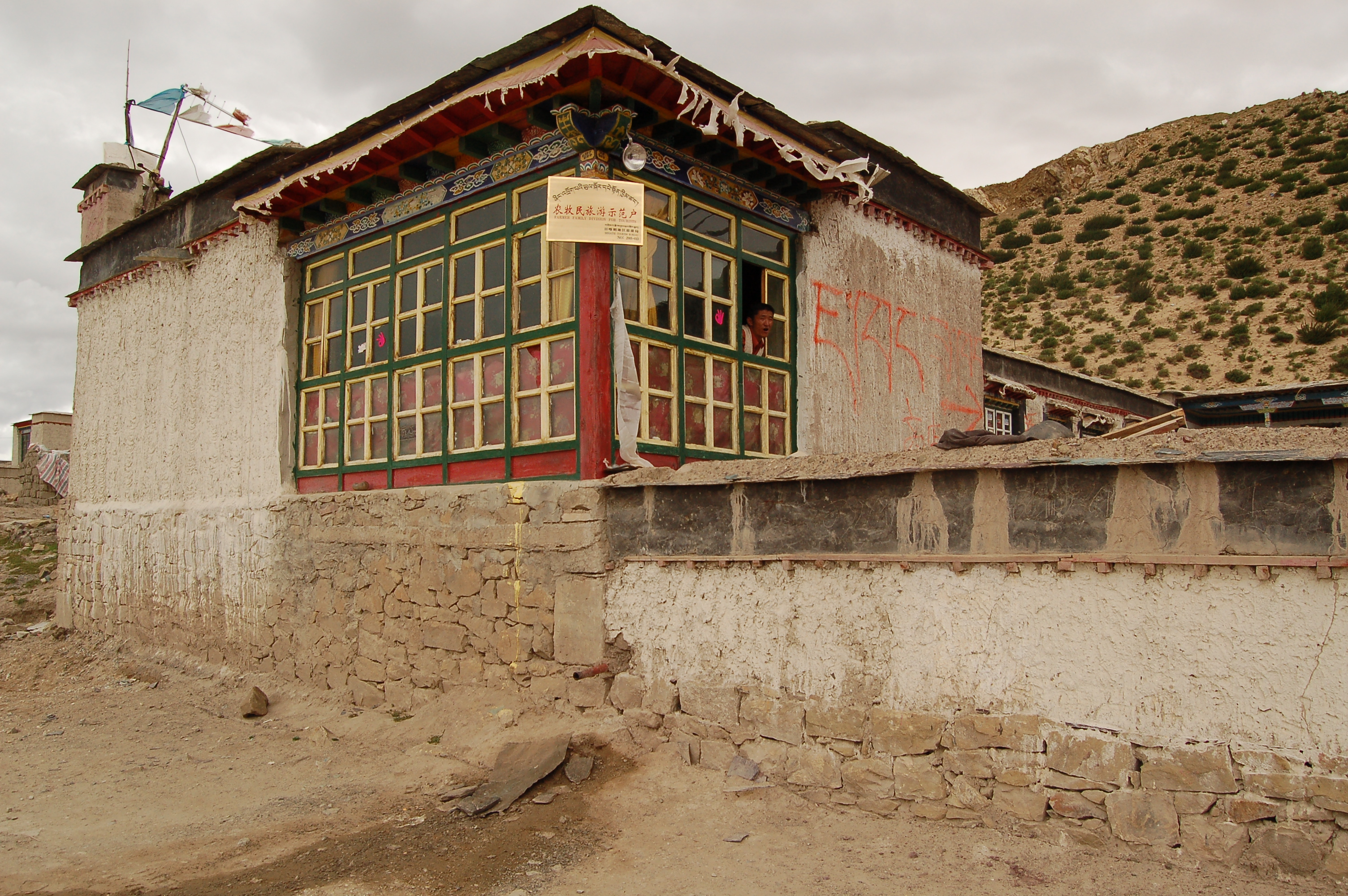 Building of Tradün: Exhebition building for Tourists